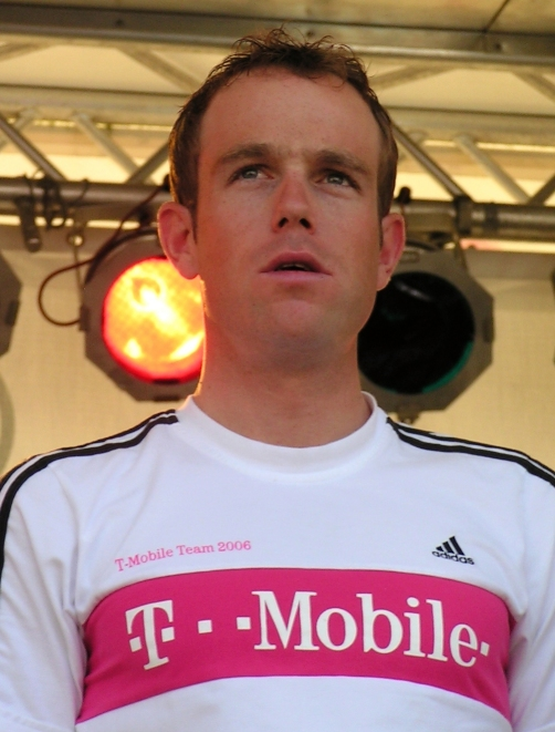 Kim Kirchen at the team presentation for the Deutschland Tour 2006 in Düsseldorf